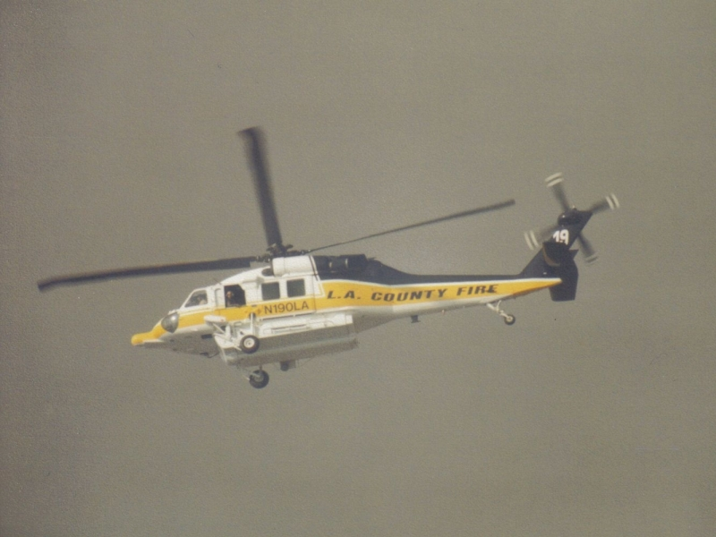 Sikorsky UH-60 Firehawk des L.A. County Fire Departments im Einsatz bei einem Buschbrand nahe Castaic, CA im August 2001. Sikorsky UH-60 Firehawk of the L.A. County Fire Dept. in action at a wildfire near Castaic, CA. (August 2001)